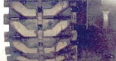 Track